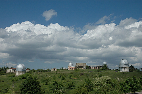 This is the panoramic view of Shamakhi Astrophysical Observatory